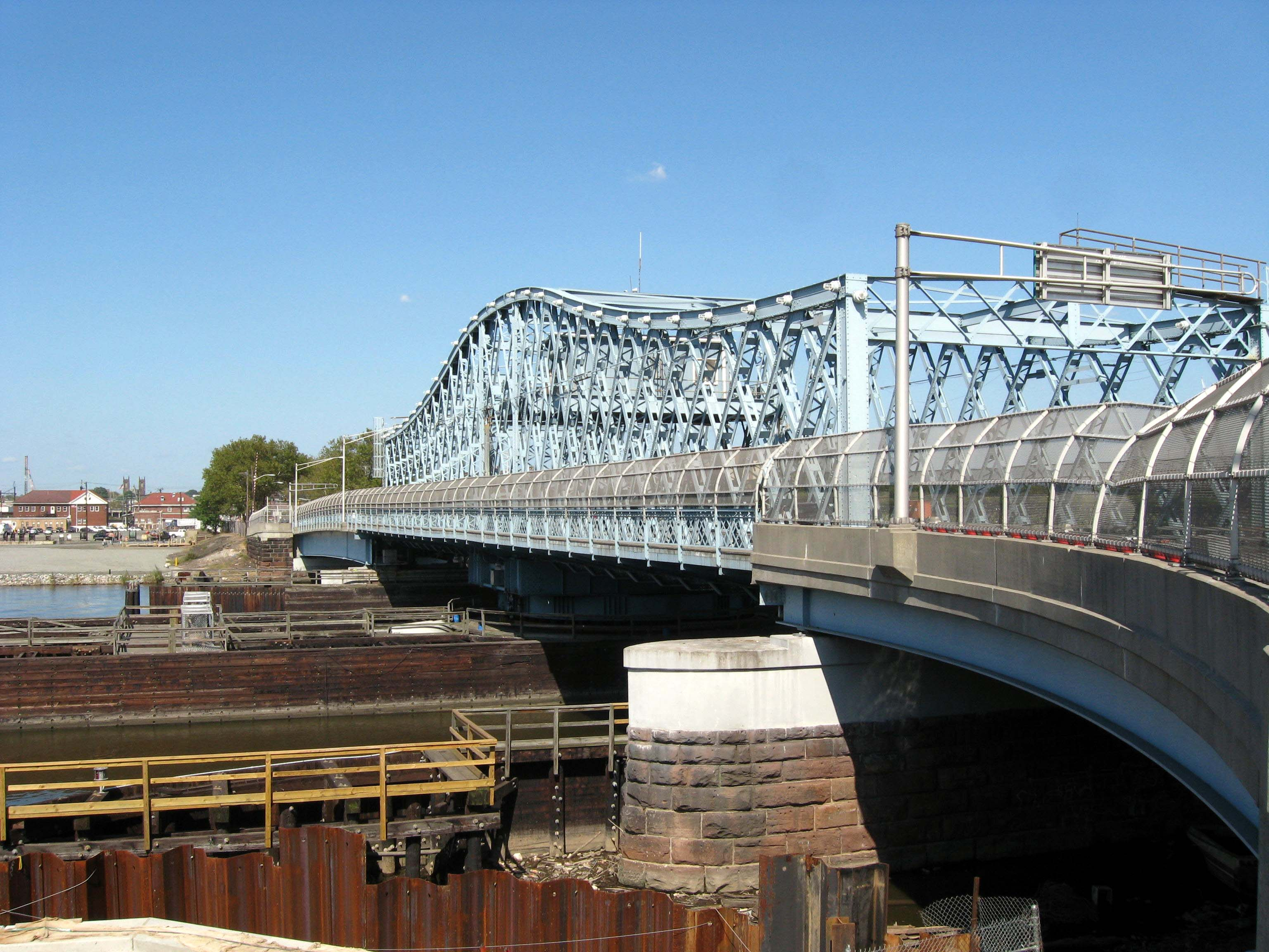 Looking north along the upstream side of the swing bridge across Passaic River, at Harrison, New Jersey, from near Jackson Street in Ironbound on a sunny midday